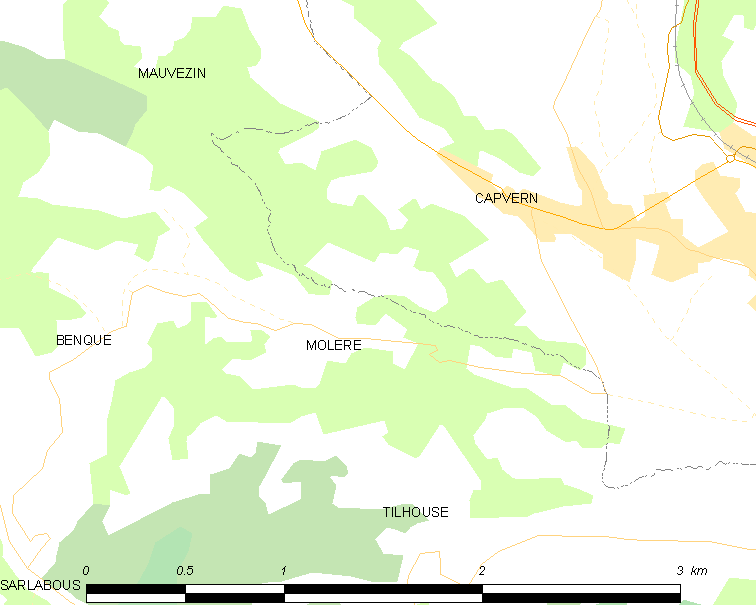 Map of French municipality